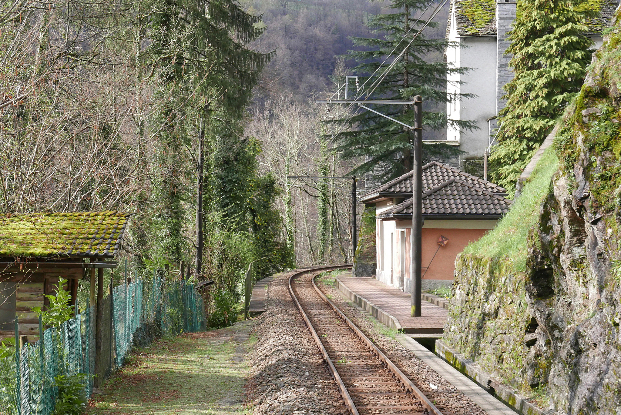 Borgnone-Cadanza train station.